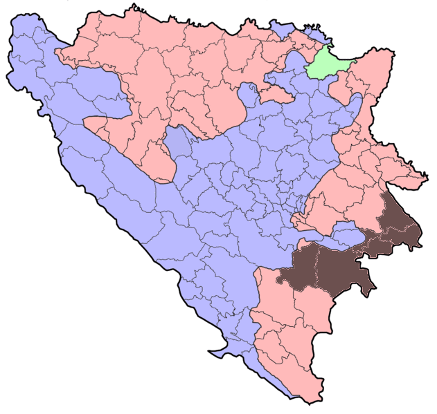 Municipalities in Bosnia and Herzegovina, Foča region (RS) highlighted